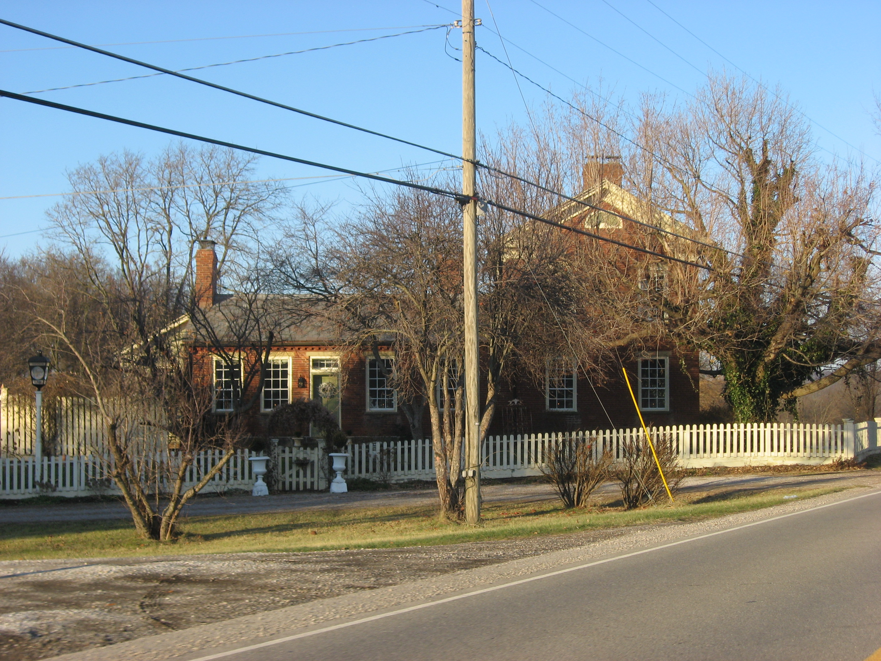 Southern side of the Soloman Whitmer House, located at 13917 Zion Road (Township Road 30) north of Thornville in Thorn Township, Perry County, Ohio, United States. Built in 1830, it is listed on the National Register of Historic Places.